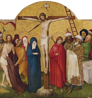 The Crucifixion: A panel from an altarpiece oil and gold on panel, shaped top 37¾ x 36 in. (97.9 x 91.4 cm.)